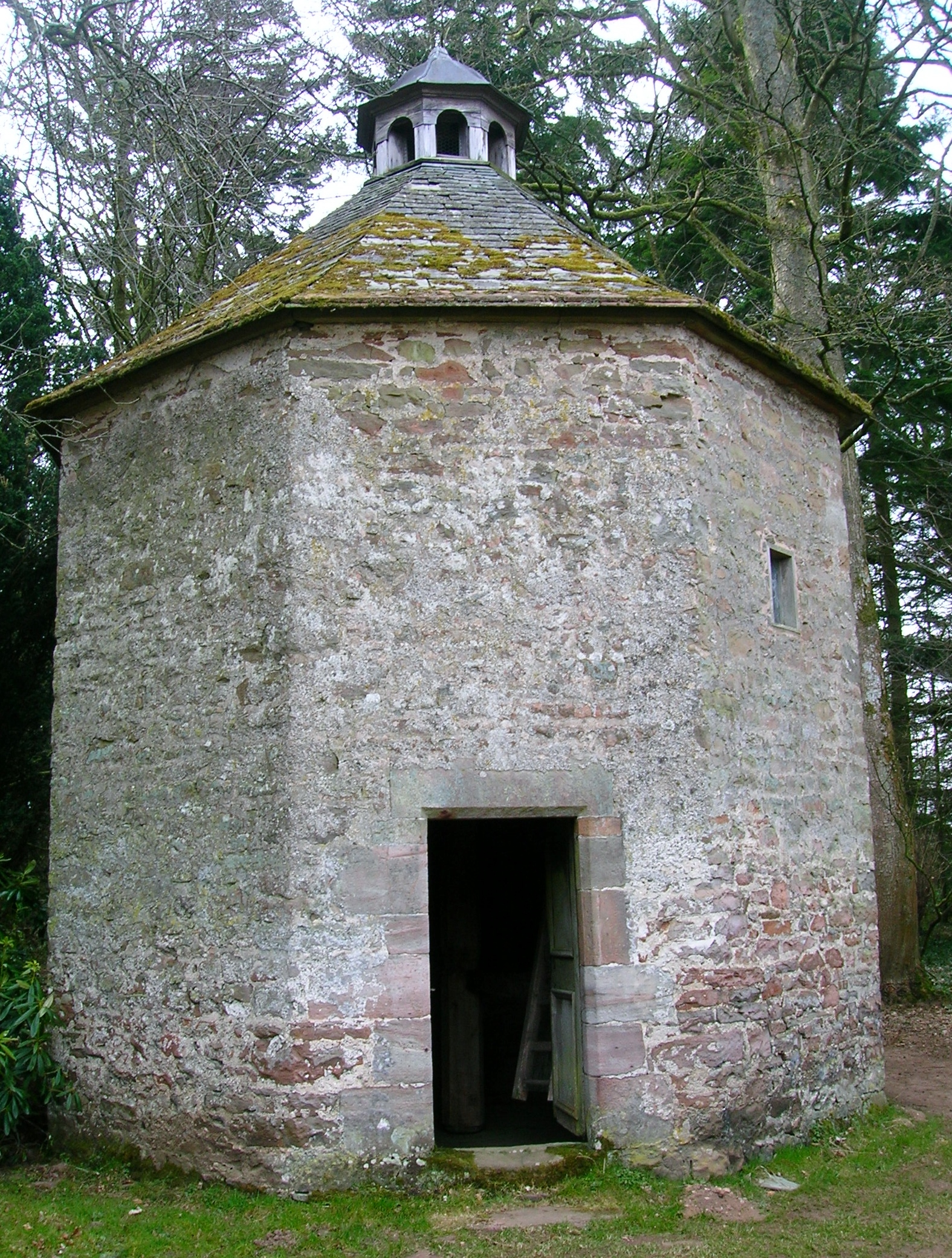 17th- or 18th-century octagonal dovecote at Hutton-in-the-Forest, Skelton, Cumbria, England